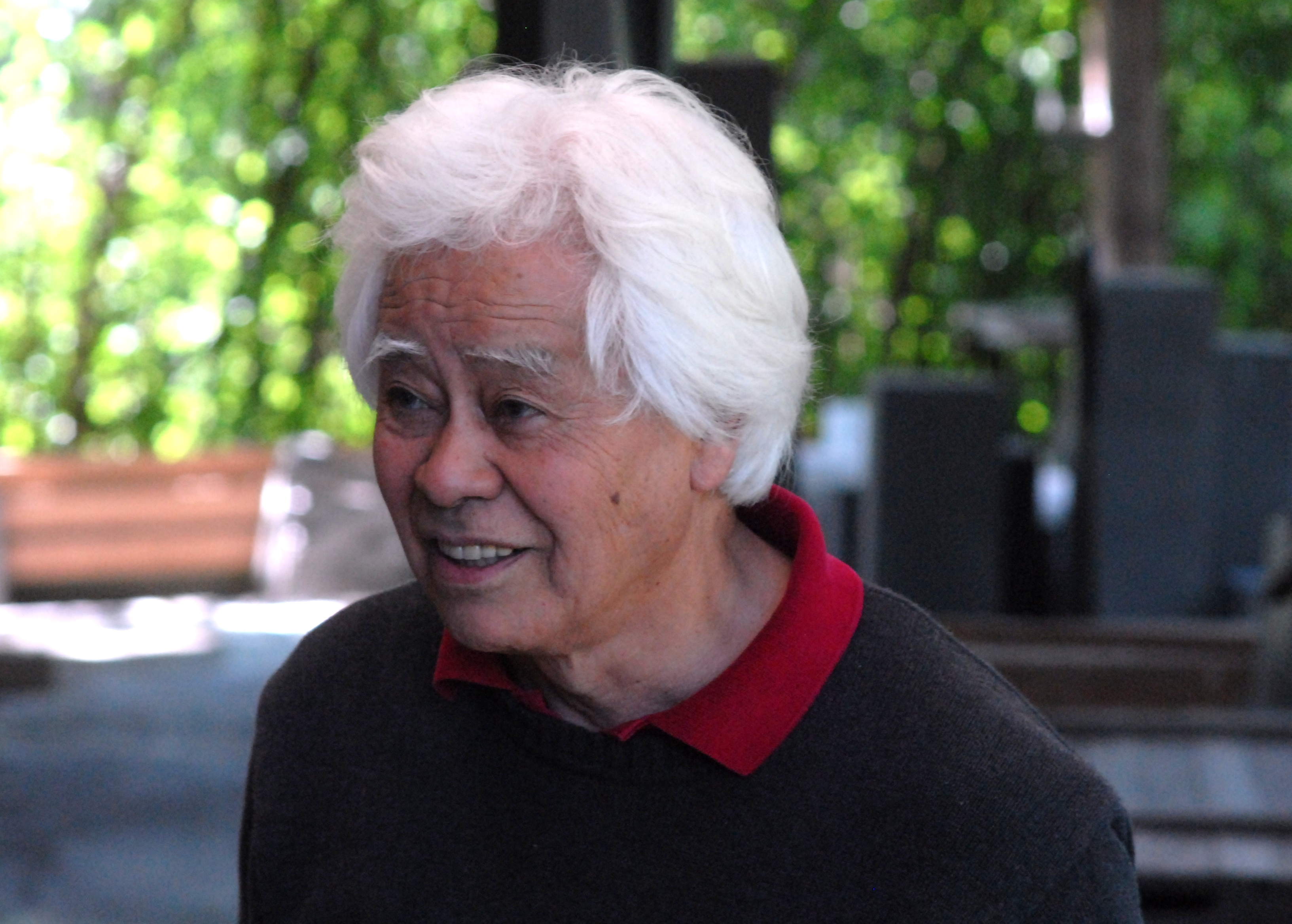 Osamu Nakajima at Gusen/Austria